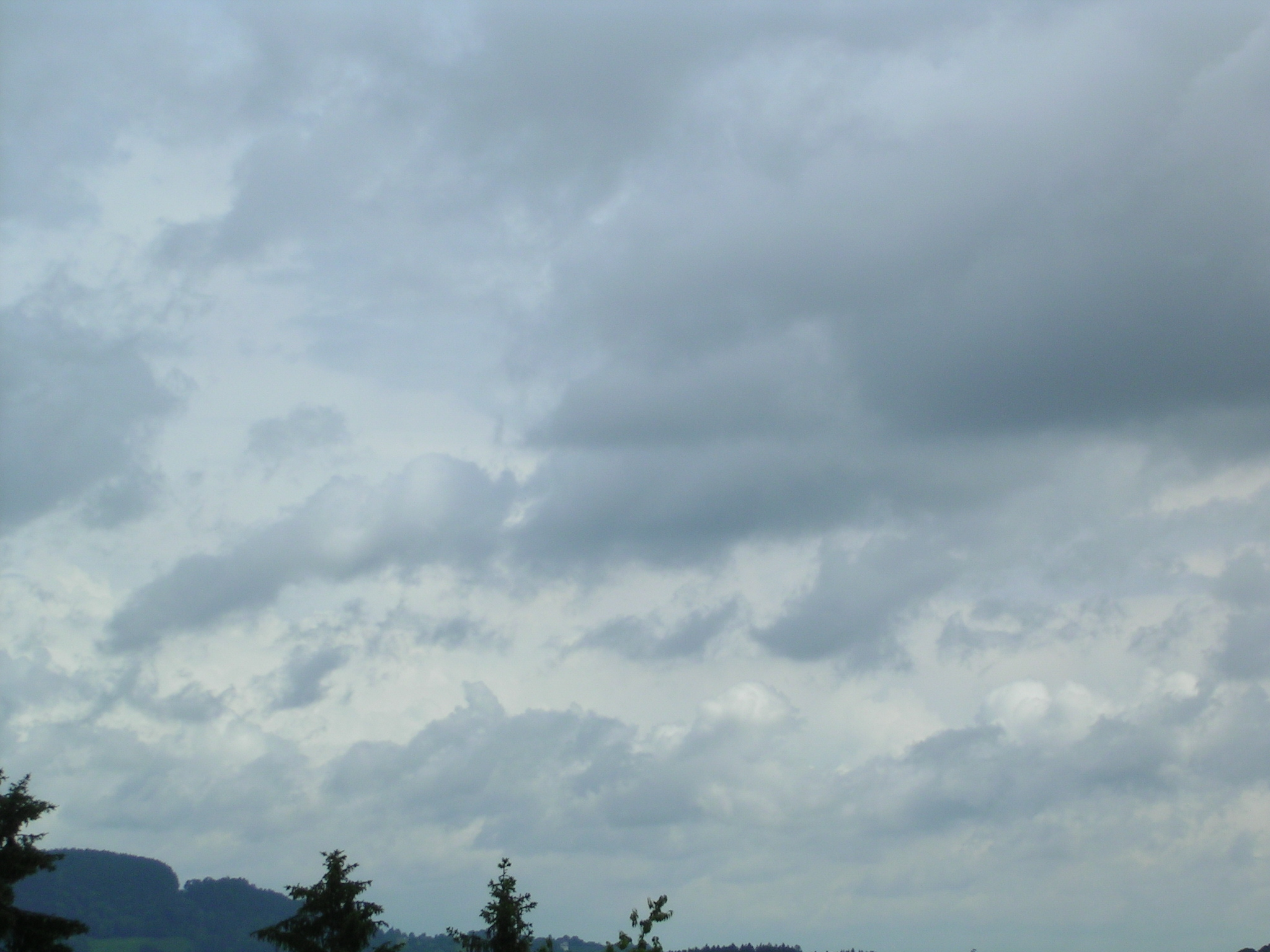 Description: Low Clouds, Code 7. Cumulus fractus below Nimbostratus. Source: Simon Eugster --Simon 08:56, 10 December 2005 (UTC)